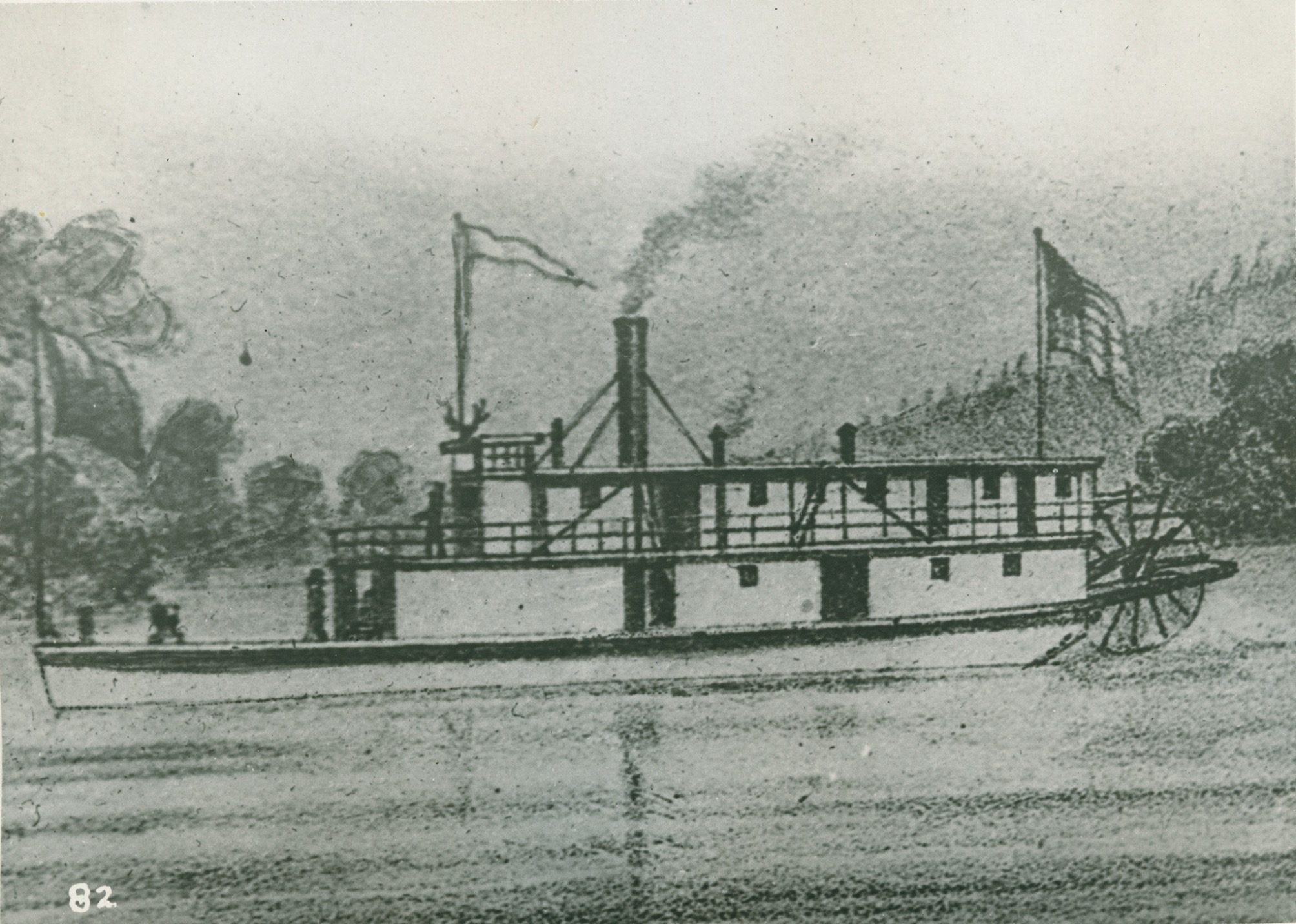 Drawing of the early steamer Elk, built at Canemah, Oregon in 1857. Date of drawing not known, but published in Oregonian in 1910.